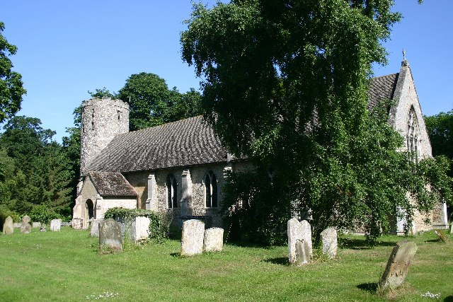 Risby Church. St Giles Church.